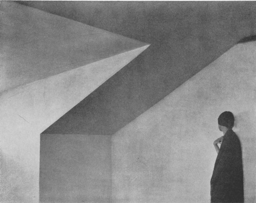 Person in an attic.